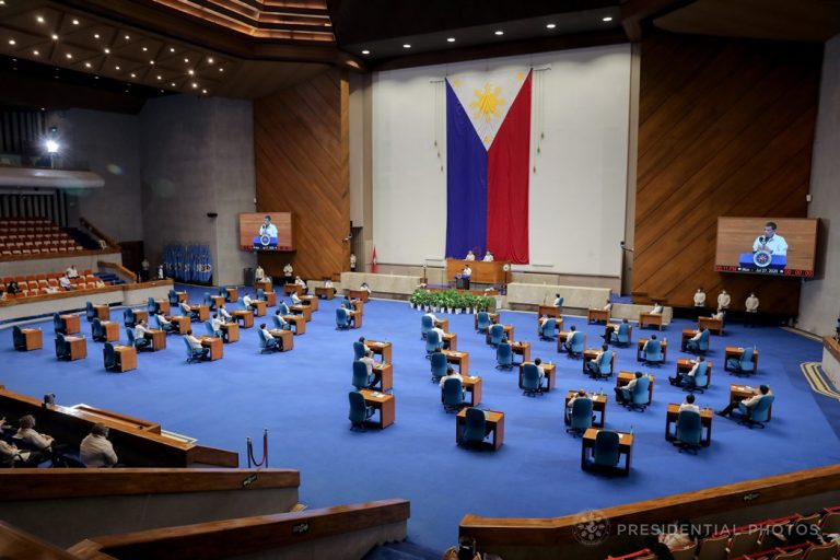 President Rodrigo Roa Duterte delivers his 5th State of the Nation Address at the House of Representatives Complex in Quezon City on July 27, 2020. PRESIDENTIAL PHOTO